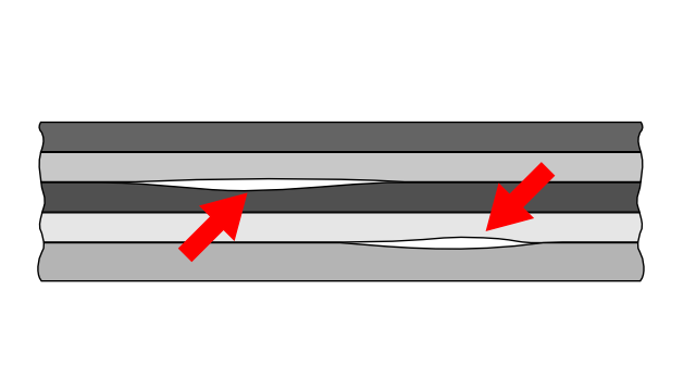 delamination